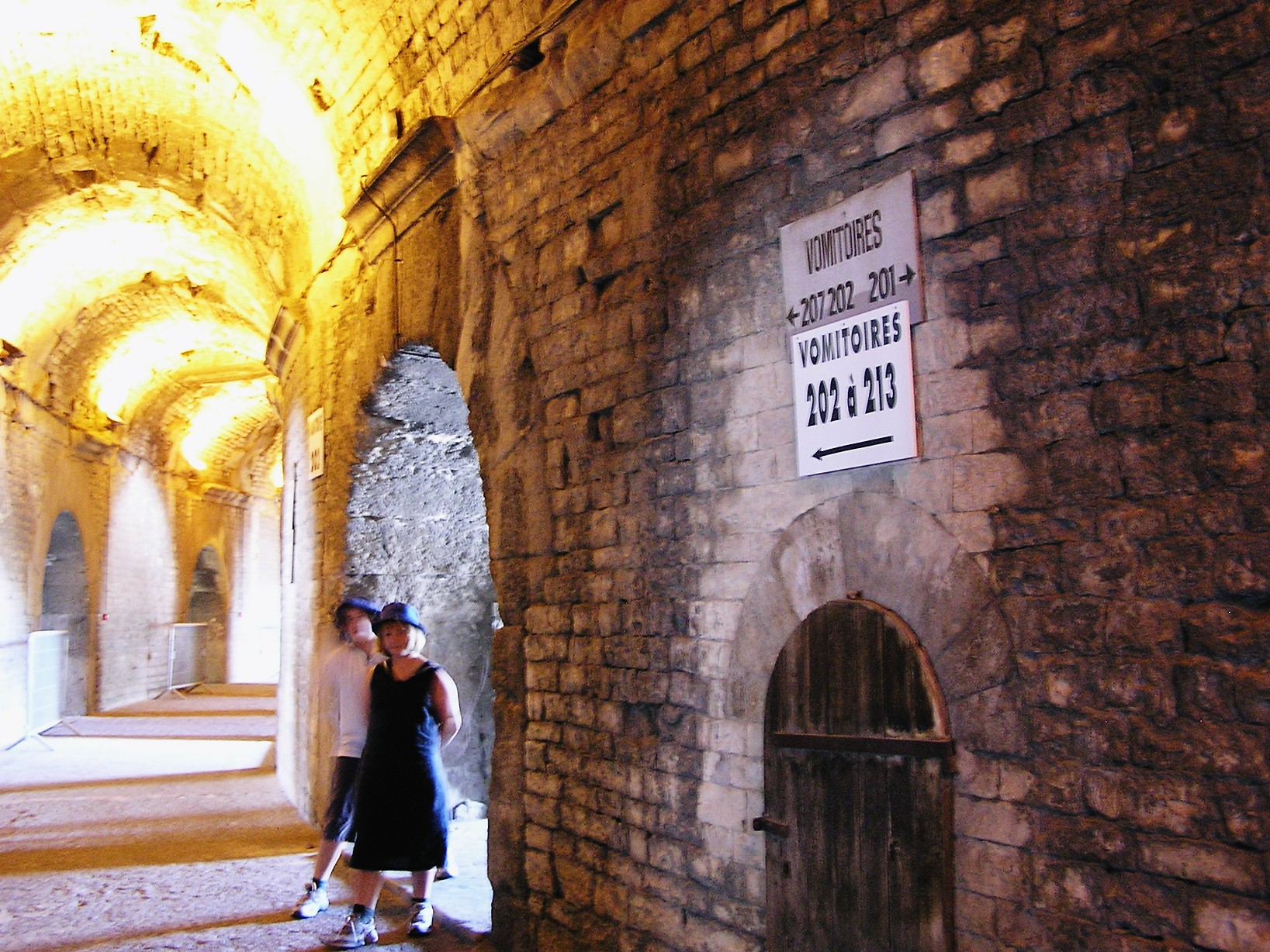 vomitorium Nîmes amphitheatre picture taken by AYArktos